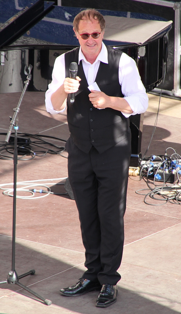 This image shows the german actor and cabaret performer Peter Kube during the benefit concert "Pirna taucht auf" in Pirna to raise money for the families affected by the flood of the Elbe river in june 2013.